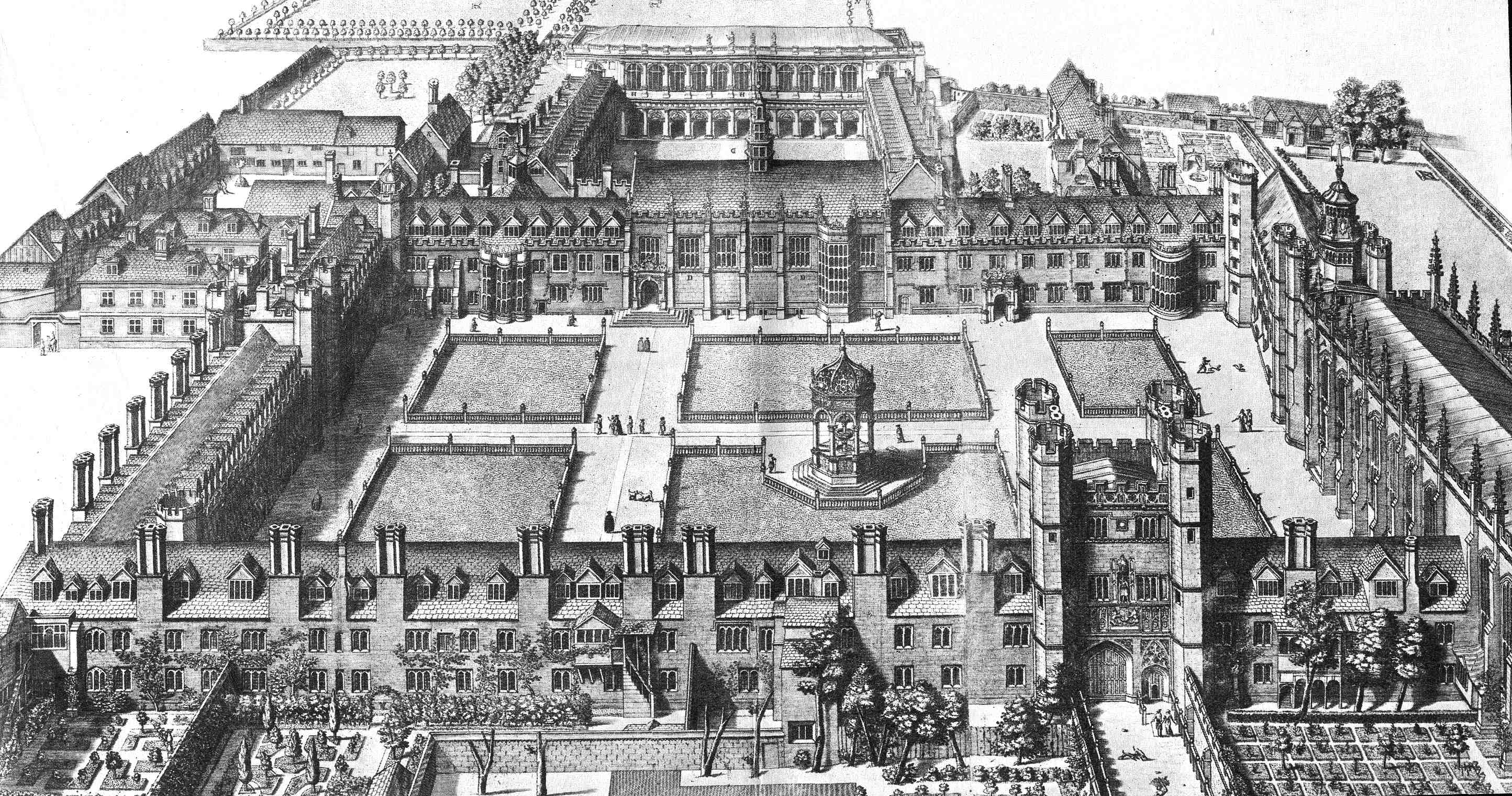 Bird's eye view of Trinity College, Cambridge, with Great Gate and Great Court in the foreground, Nevile's Court and Wren Library in the background